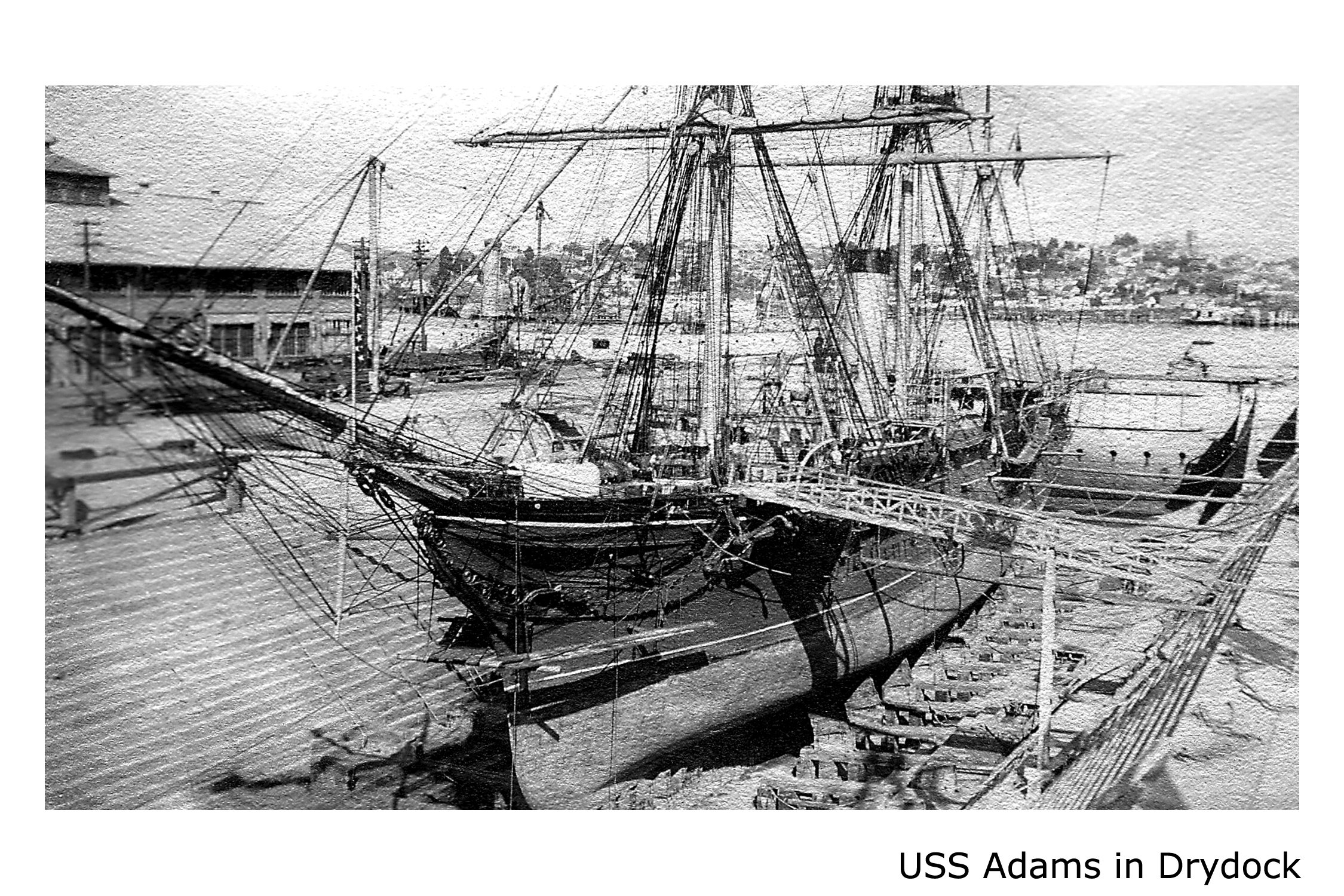 picture of USS Adams in dry dock